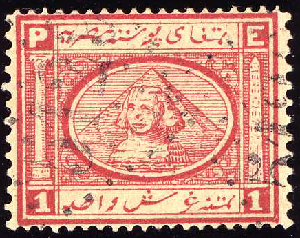 1 piastre Egypt issue 1867, cancelled 5129 French office in Port-Said. SG N°14.